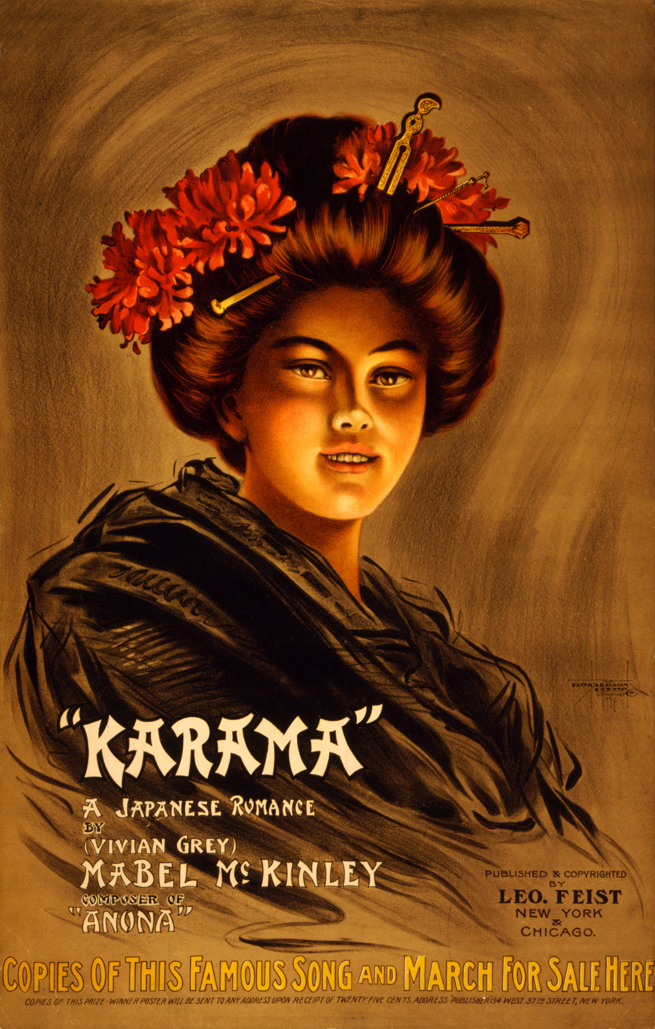 Poster announcing publication and sale of the song and march "Karama". Caption reads: "Karama" a Japanese romance by (Vivian Grey), Mabel McKinley, composer of "Anona". Copies of this famous song and march here.